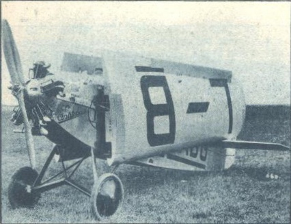 Aircraft Avia BH-11 disassembled. Contest "Challenge International de Tourisme 1929".